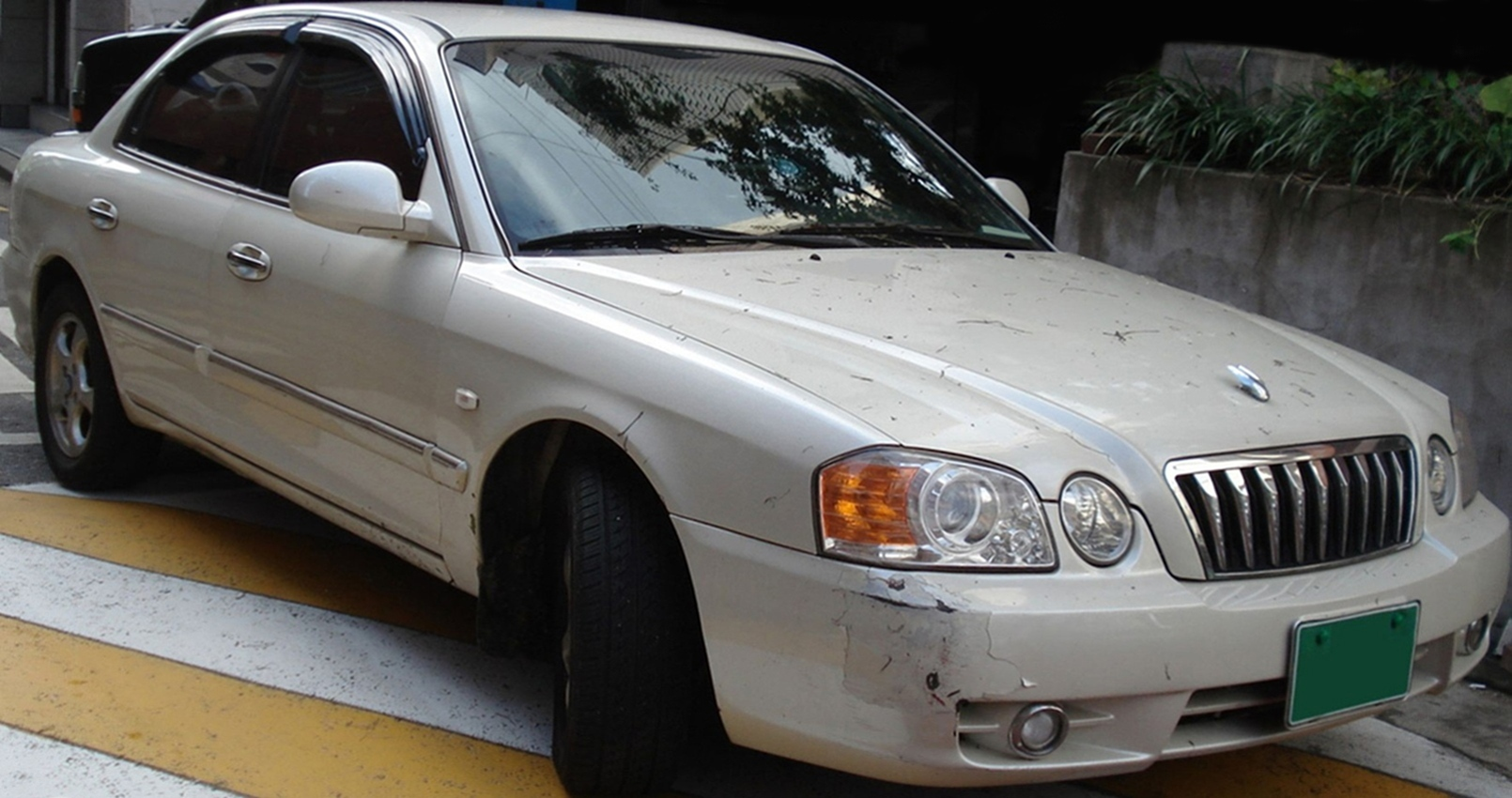 Kia Optima Regal